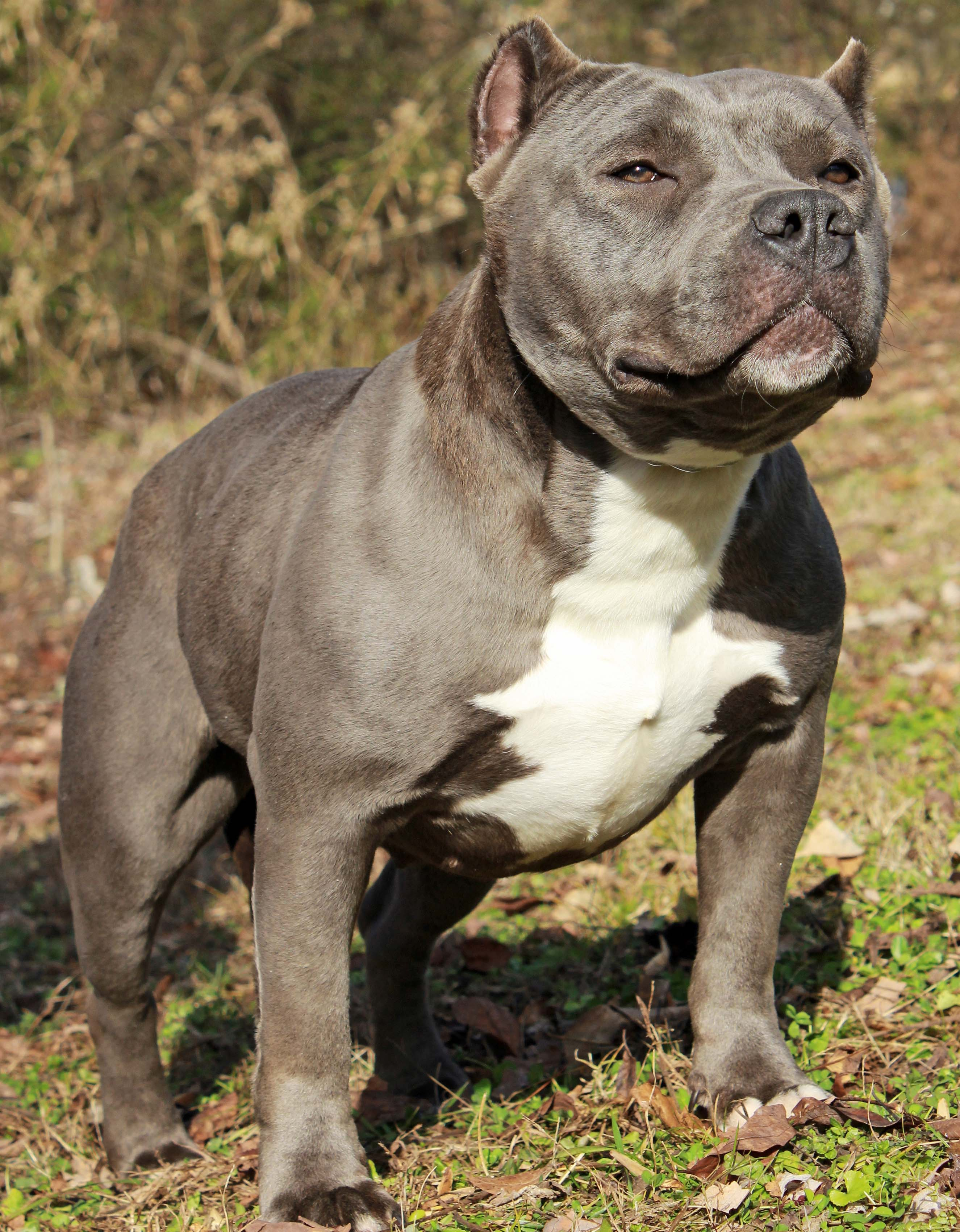 Miley Blue Crush Daughter at 1 Year Old.